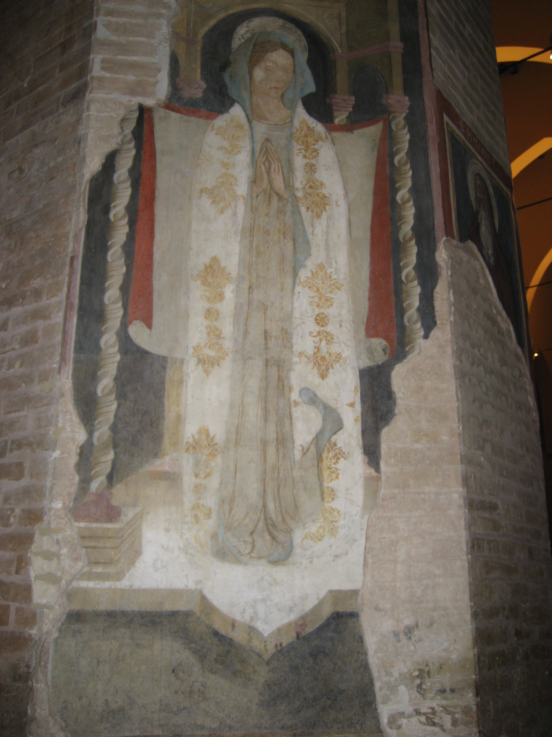 I in the fourth column of left in the central aisle of the Cathedral; the fresco postpones to the art of Andrea De Litio.